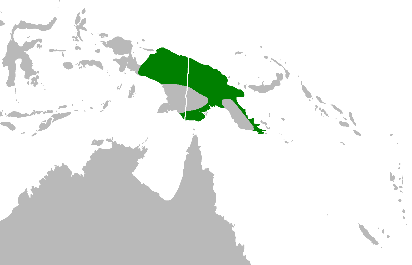 Distribution of the Papuan Harrier (Circus spilothorax). Based on: Robert E. Simmons: Harriers of the World: Their Behaviour and Ecology. Oxford University Press, 2000, p. 30